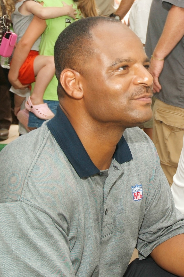 Former American and Canadian football quarterback Warren Moon, during the Madden 07 release party.